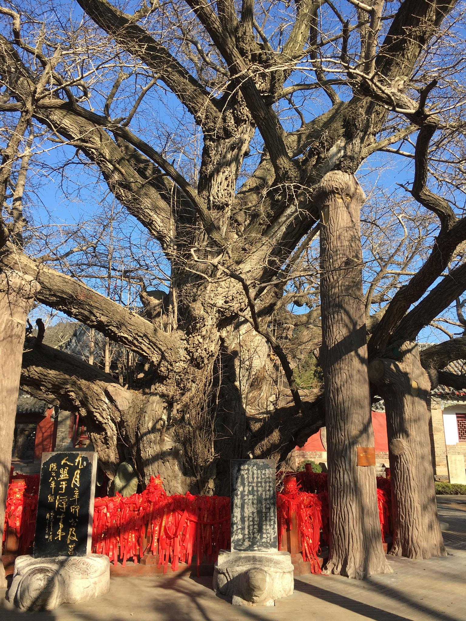 Ginkgo Tree in Fulaishan Scenic Area believed to be more than 3000 years old.